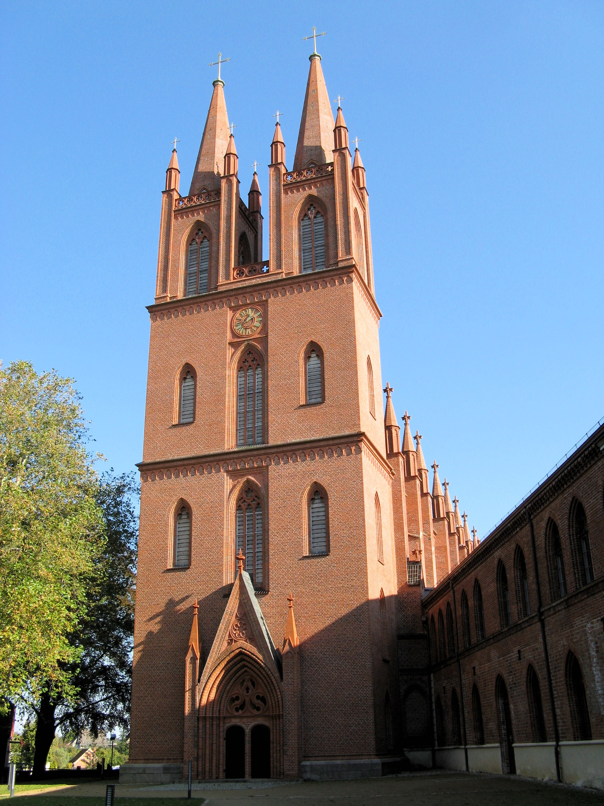 Church in the Monastery Dobbertin, disctrict Parchim, Mecklenburg-Vorpommern, Germany